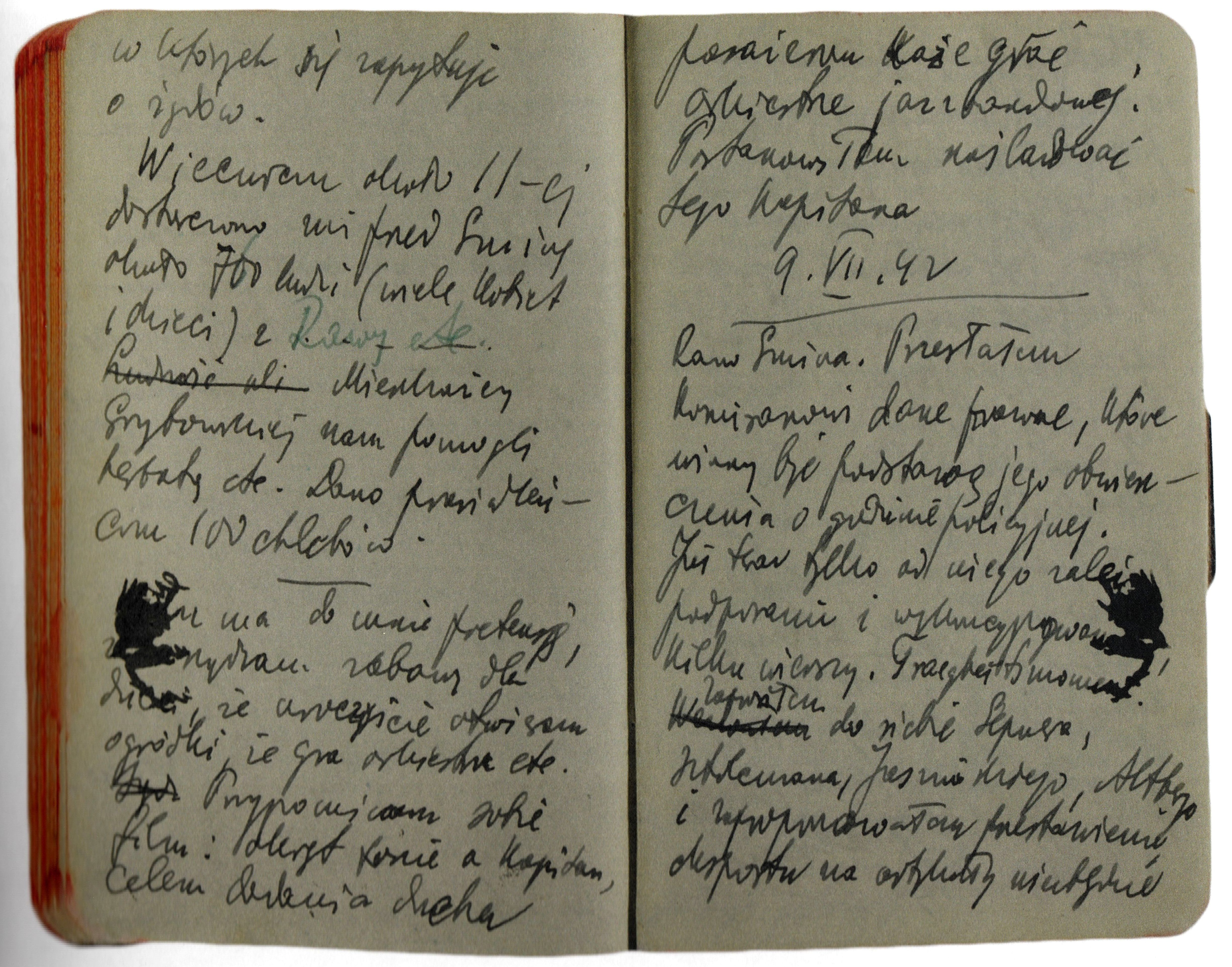 Pages from Adam Czerników's diary